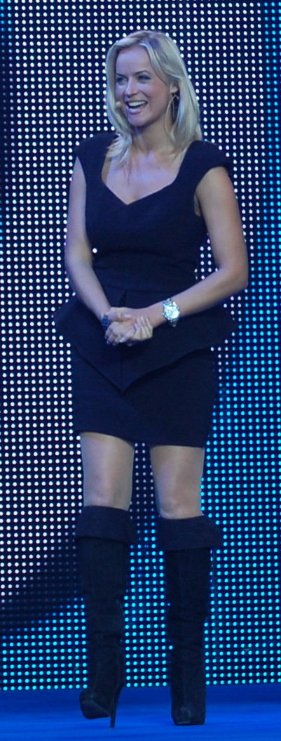 Pollyanna Woodward at Gadget Show Live 2011. Cropped from original.